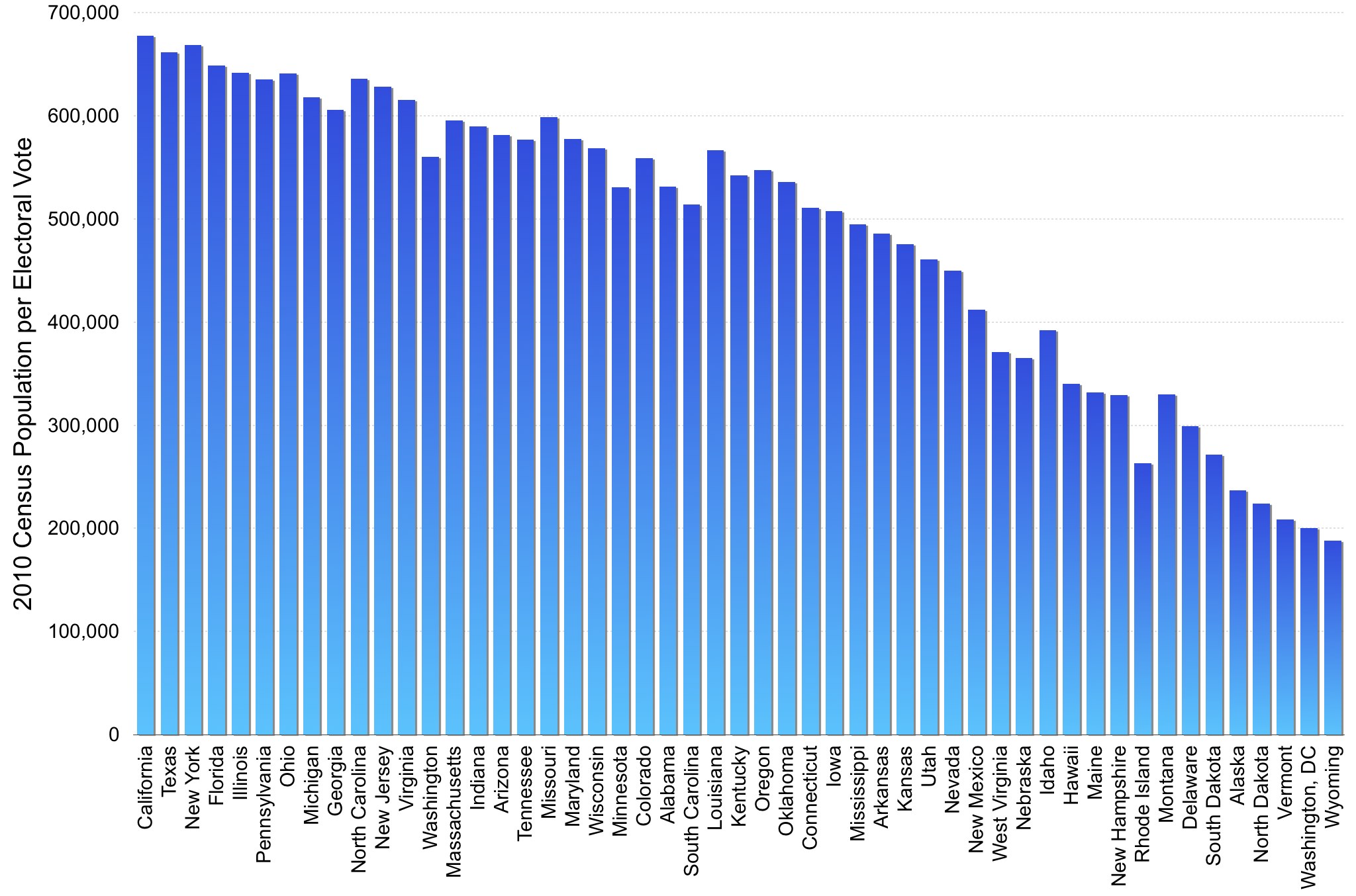 Chart showing 2010 census state population per electoral vote for the 50 states and Washington D.C. States are sorted from left to right based on total population, using 2010 census population from and 2011-2021 electoral votes per state (from apportionment following 2010 census).